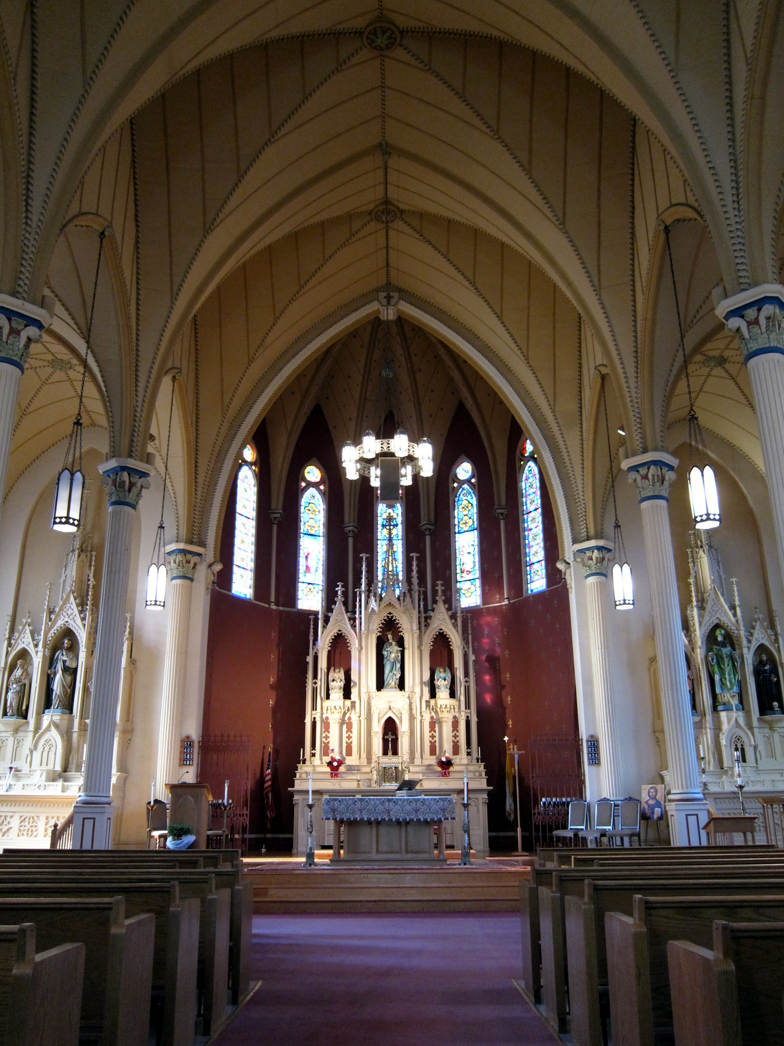 Saint Mary Catholic Church (Delaware, Ohio) - interior, nave